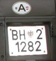 Federal Army of Austria's license plate